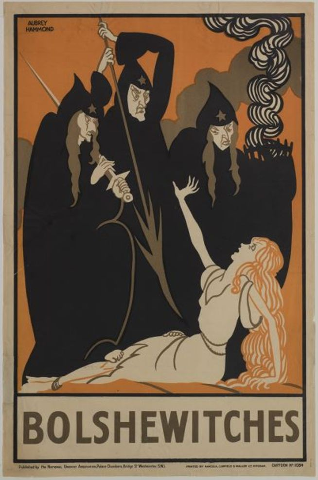 Poster designed by the British Illustrator Aubrey Hammond for the the Unionist (Conservative) party during the 1924 U.K. General Election.